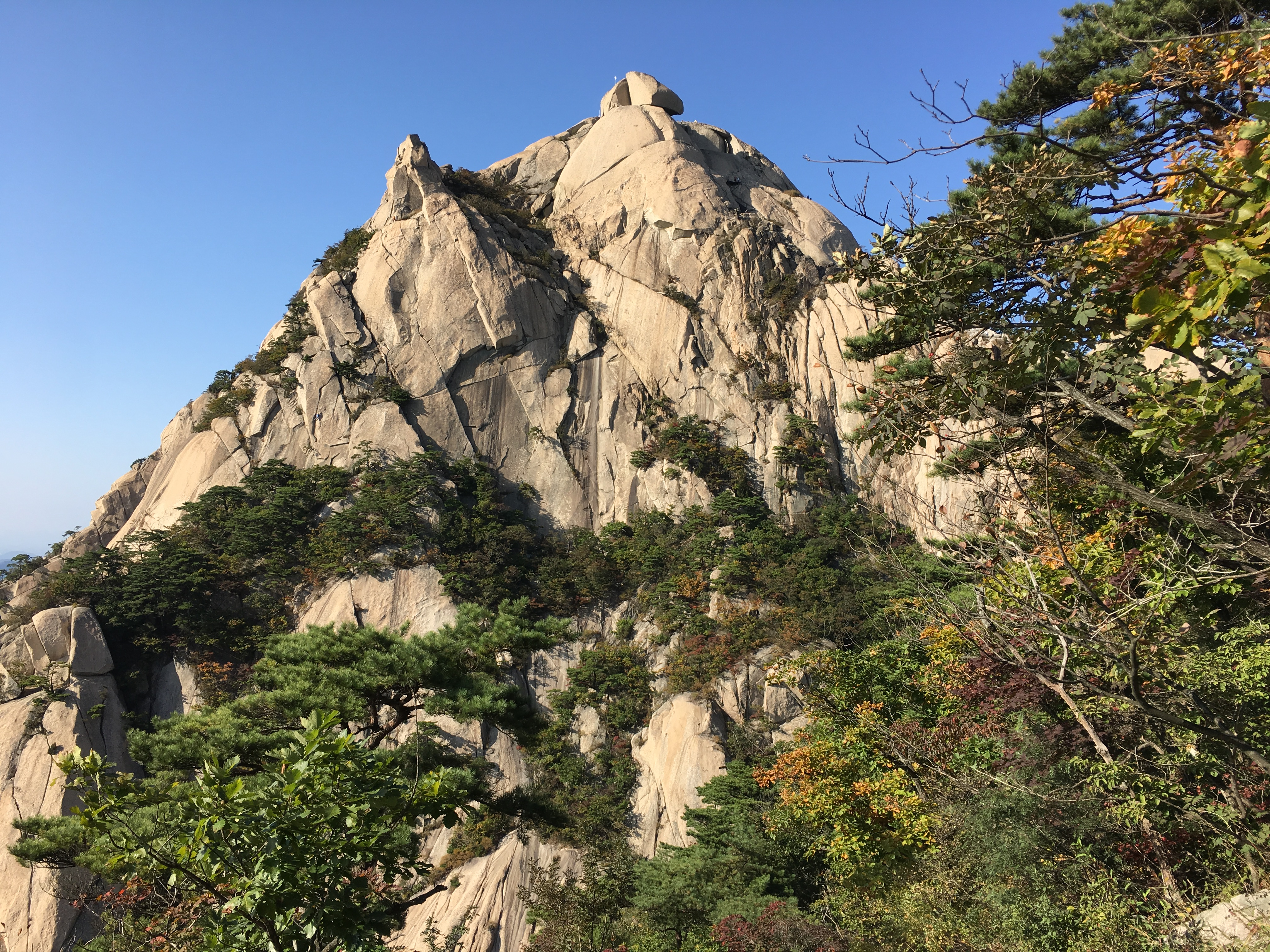 Peak of the Bukhansan Mountain near Seoul, Korea